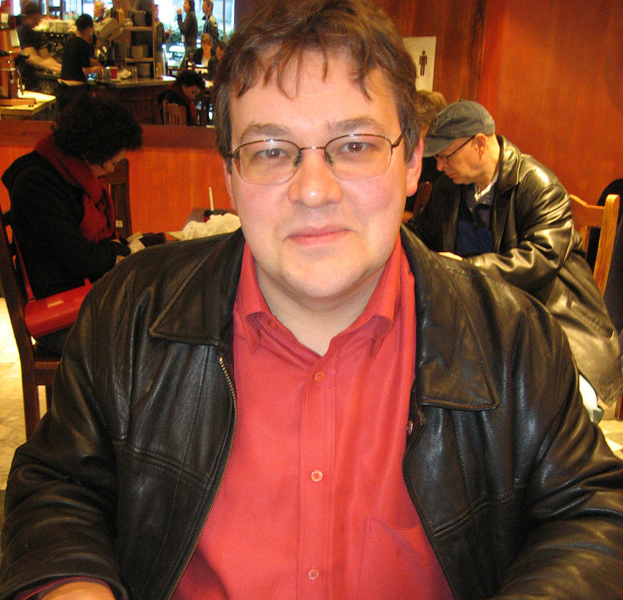 Kevin Marks, author of the weblog Epeus Epigone, software engineer and principal engineer for Technorati.